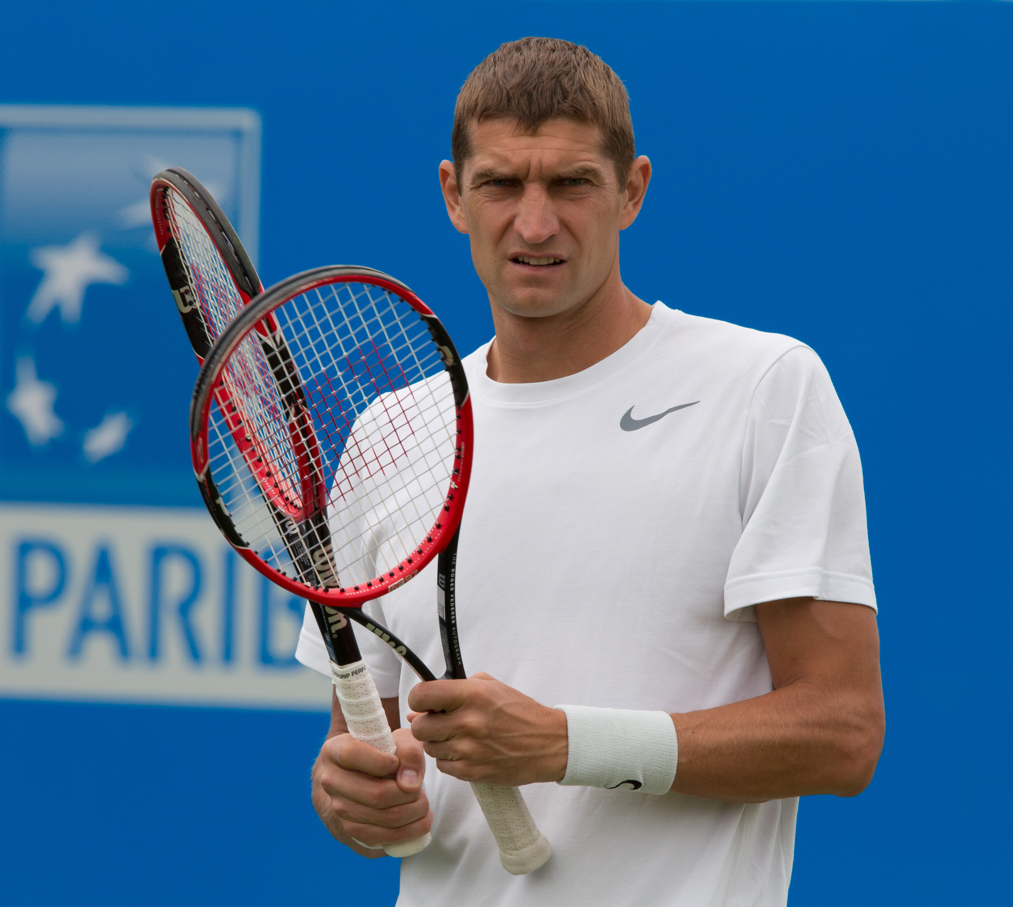 Max Mirnyi during practice at the Queens Club Aegon Championships in London, England.